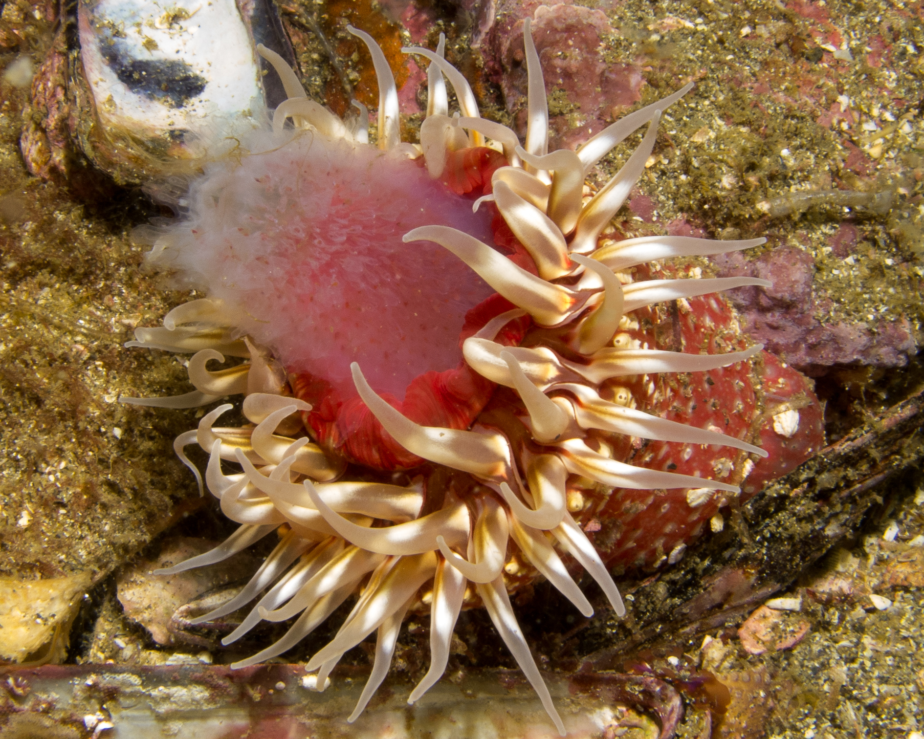 Urticina lofotensis, comiendo un tunicado, isla Santa Cruz, California, EE.UU.